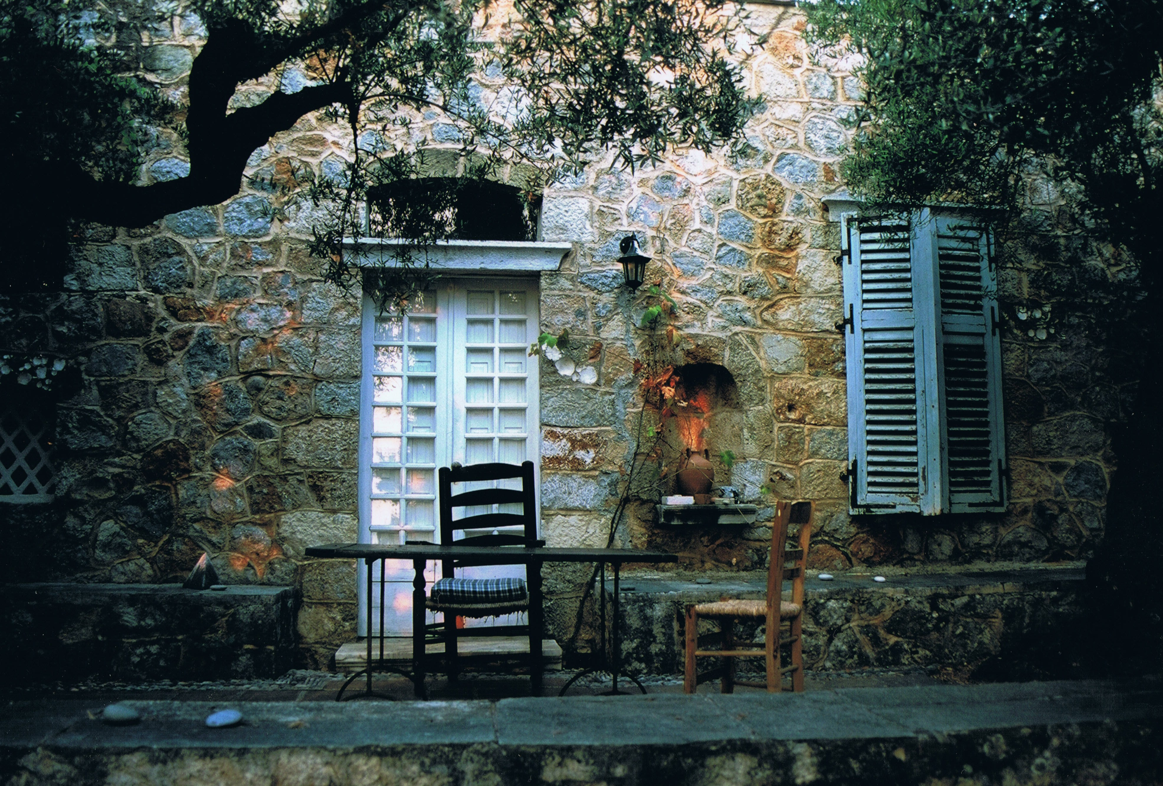 My scan of my photo (taken by me, R. de Salis, Rodolph (talk) 23:46, 23 November 2014 (UTC)) of a desk in the P. M. L. Fermor garden near Kardamyli, August 2007.